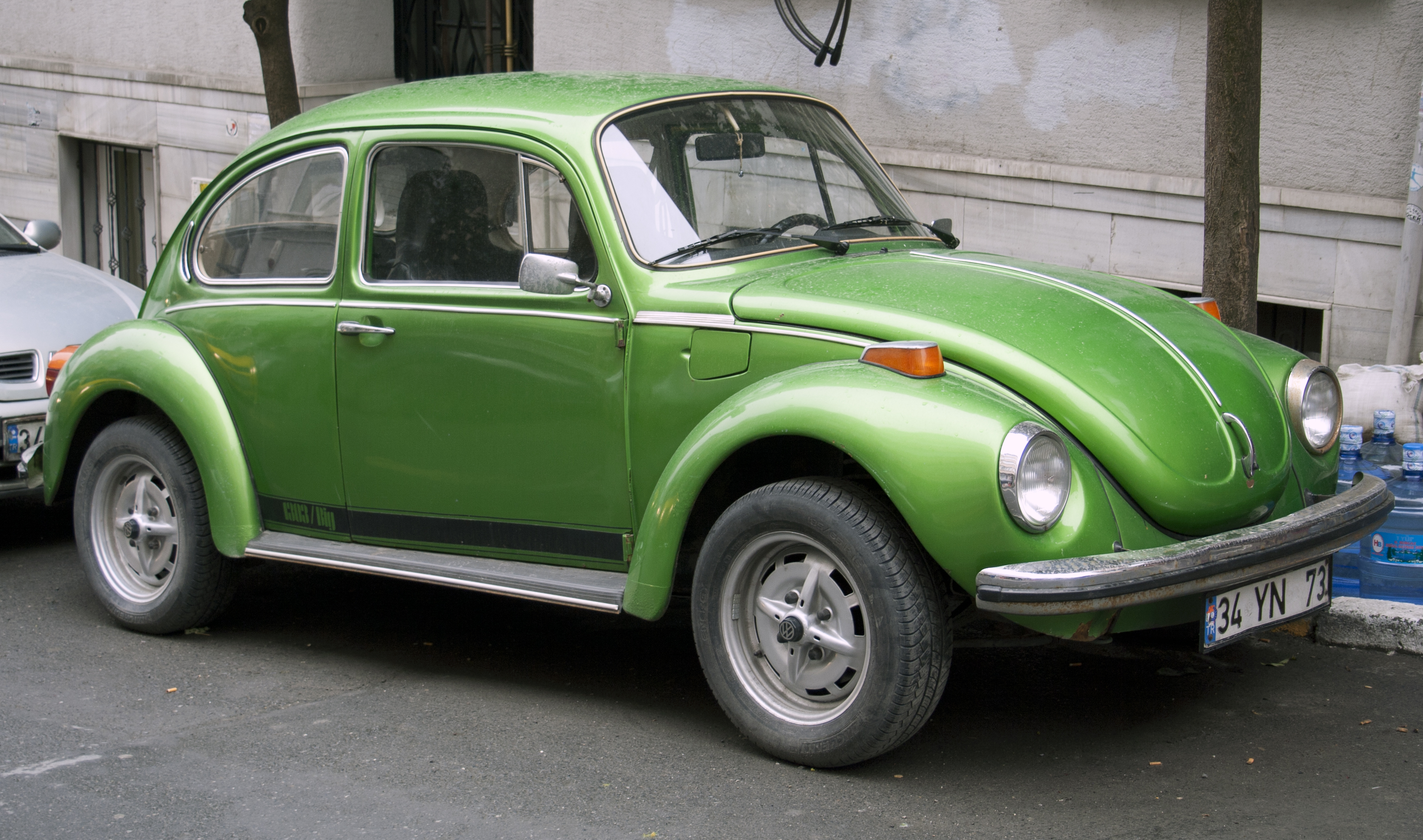 1973 or 1974 Volkswagen 1303/Big in Beyoğlu, Istanbul. This was a well-equipped special edition with 15-inch wheels, a heated rear windshield, metallic paint, wood trim (wheel/gearknob), and other plush extras.